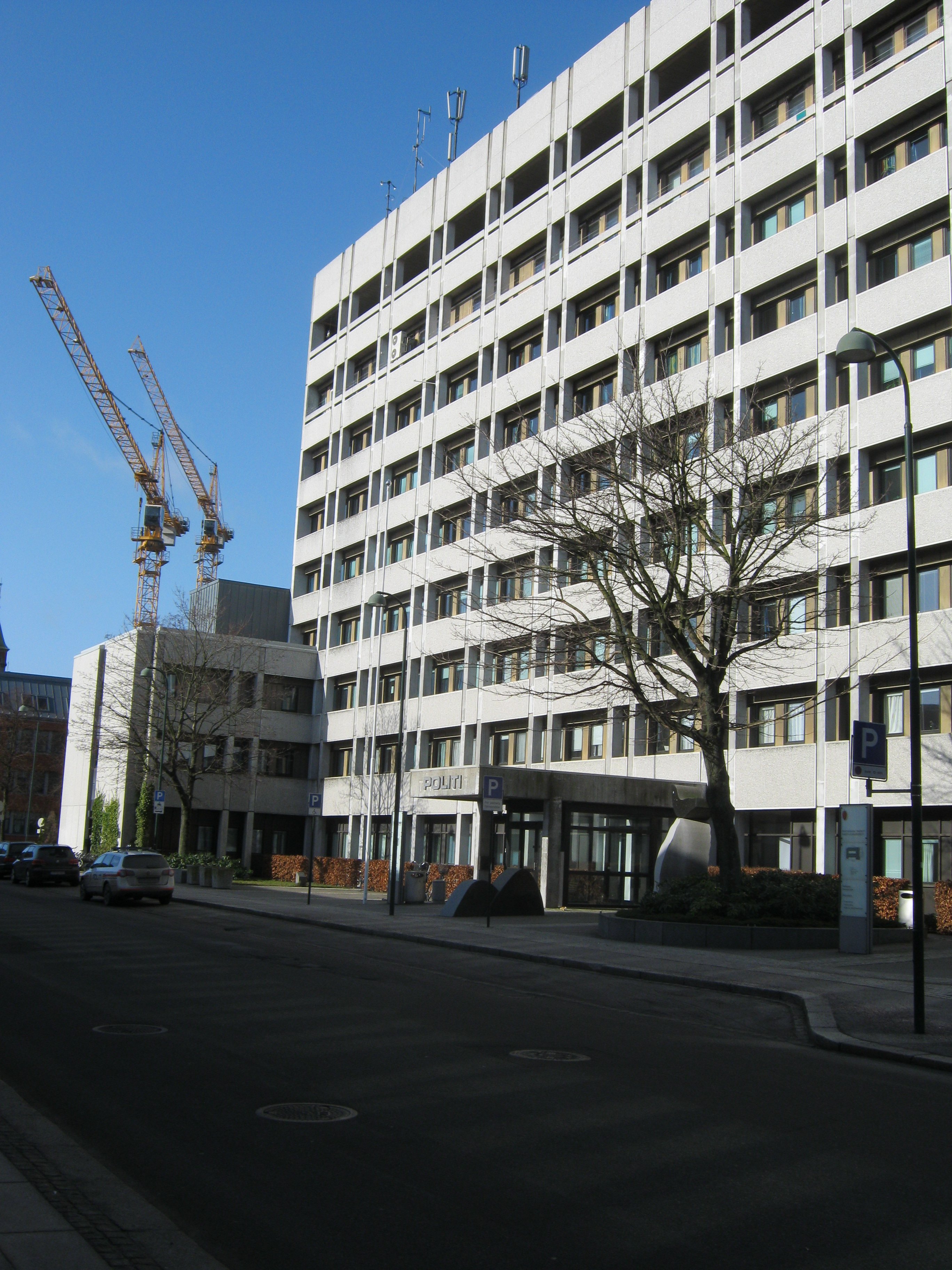 Policeheadquaters, Kristiansand (2012)